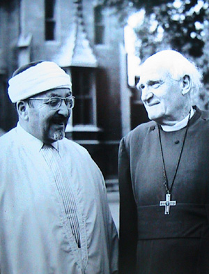 Mohamed_Fadhel_Ben_Achour_with_a_Christian